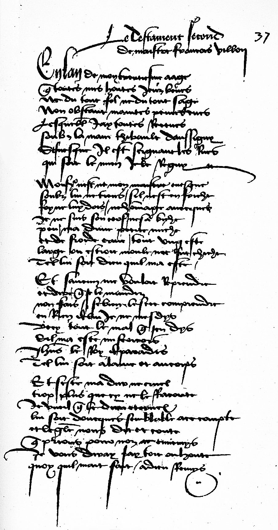 A page from François Villons (1431-c.1474) "Grand Testament de Maistre François Villon". Kungliga biblioteket (The Royal Library), Stockholm, Sweden.